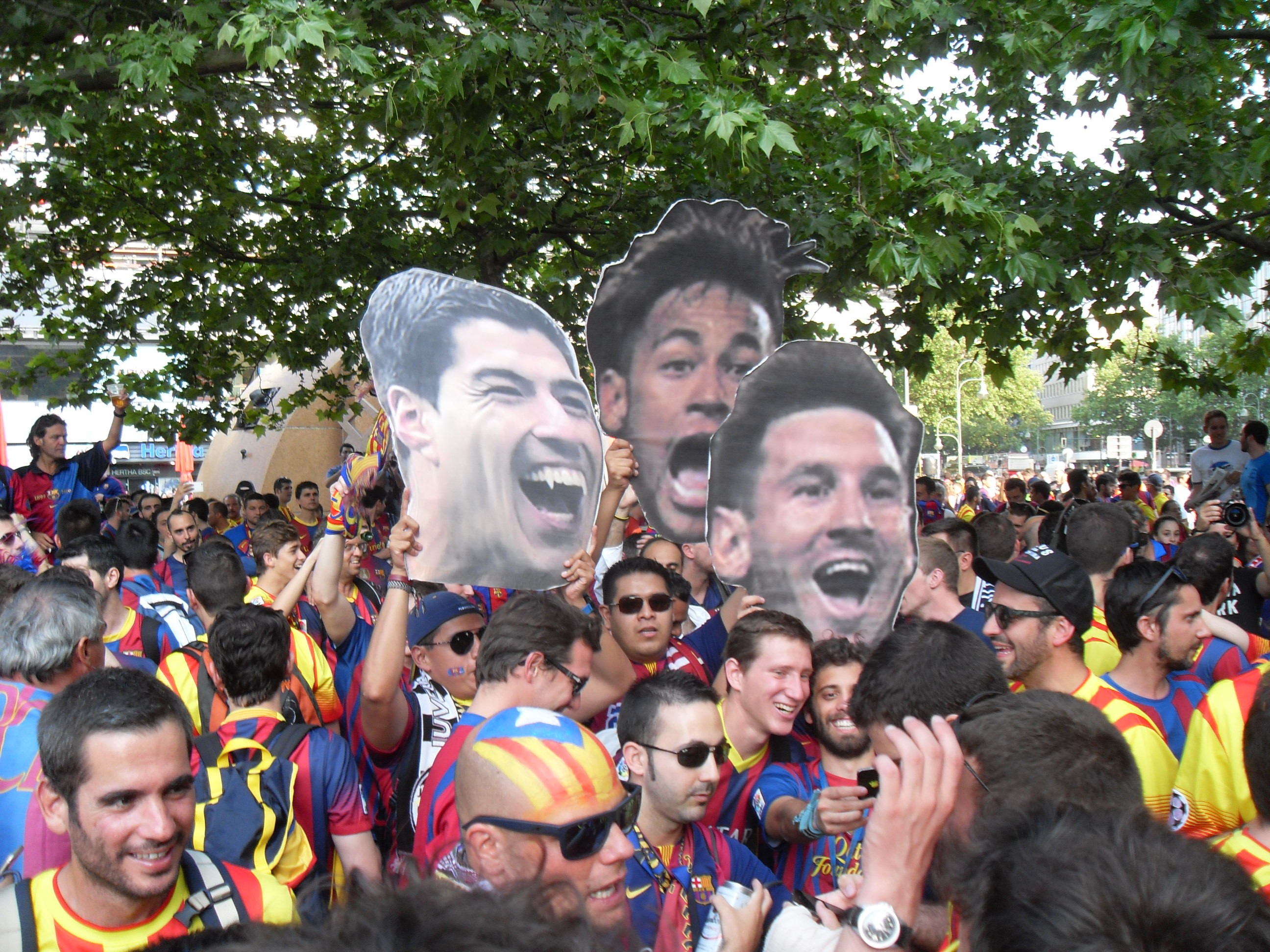 Euphoric FC Barcelona fans with huge pictures of Messi, Suárez and Neymar. The Barça fans were assembled at Breitscheidplatz, next to the Kaiser Wilhelm Memorial Church, some hours before the begining of the Champions Final against Juventus, in Berlin. Saturday 06 June 2015.